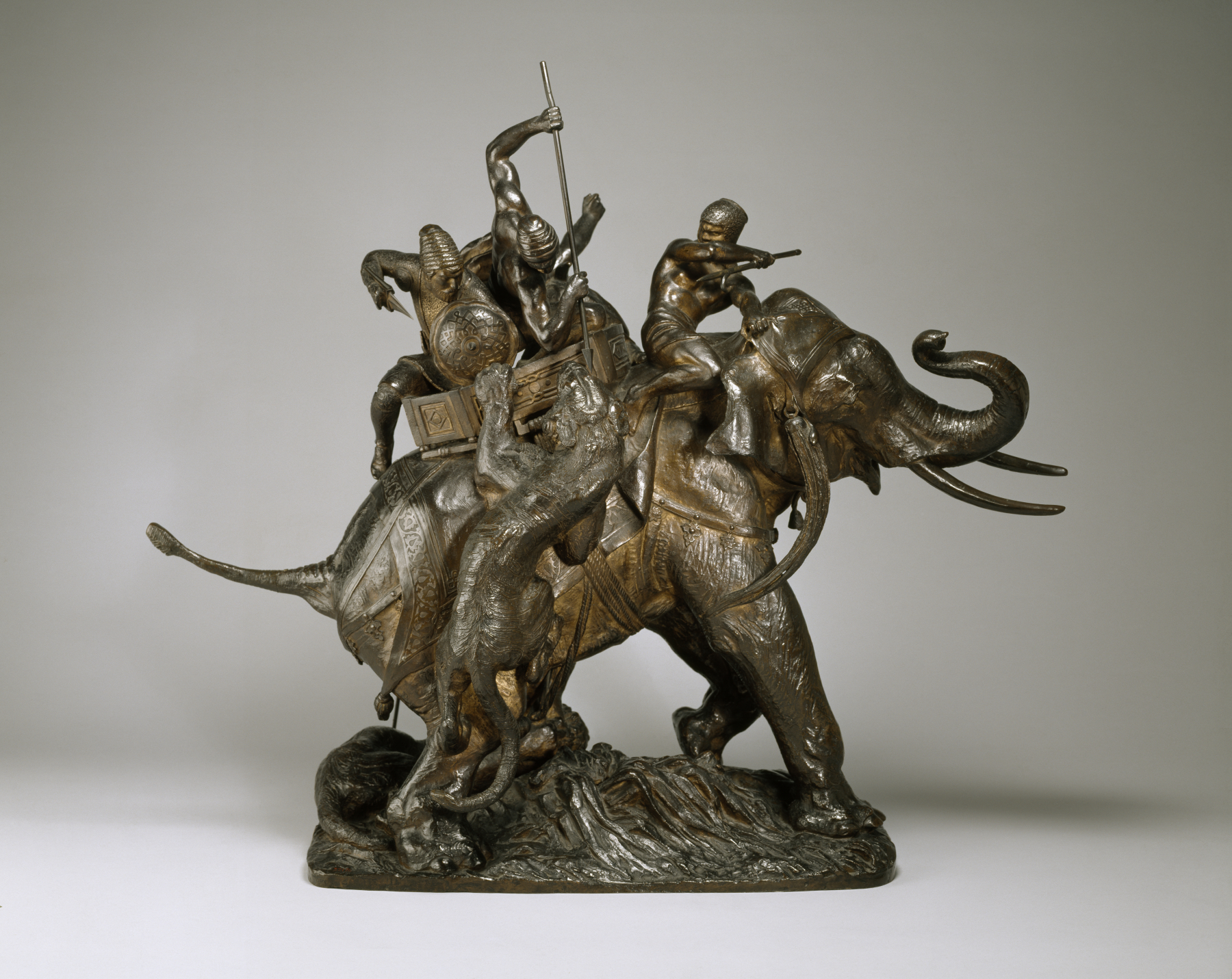 One can imagine this hunting scene taking place in the exotic East. This sculpture originally stood on a five-foot-high, gilt-bronze triumphal arch in the middle of the duke of Orléans's centerpiece. Three Indians, perched in the box-like howda, defend themselves from a tiger clawing its way up the elephant's back. The driver, riding on the elephant's neck, is about to strike the tiger with his barbed goad. A second tiger, already wounded by a spear, seizes one of the elephant's rear feet. Barye derived this subject from various sources, including a 17th-century Persian miniature. The inscription around the sculpture's base identifies the piece as having been cast by Honoré Gonon and his two sons using the more costly lost-wax process, rather than sand casting. Gonon was credited with reviving this technique, which faithfully replicates the details of the original model.